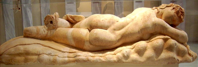 Statue of a sleeping Maenad, lying on a panther skin spread on a rocky surface; the type in known as the reclining Hermaphrodite; Pentelic Marble; found at the south of the Athenian Acropolis; Hadrianic time (117-138), follows a classical trend in the attic art; National Archeological Museum Athens (261)